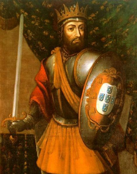 o rei